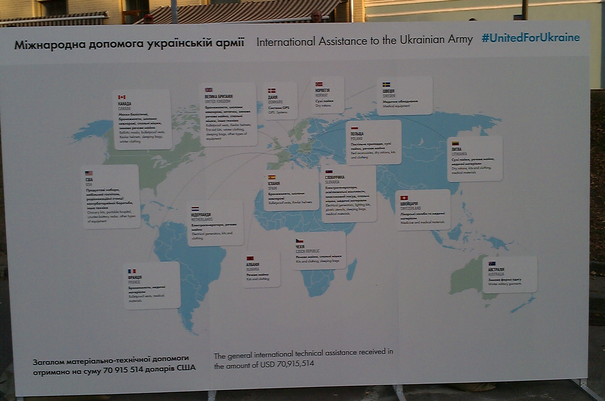 Map of intarnational assistane to the Ukrainian Army at the exhibition «The Power of unconquered» on the Day of the defender of Ukraine